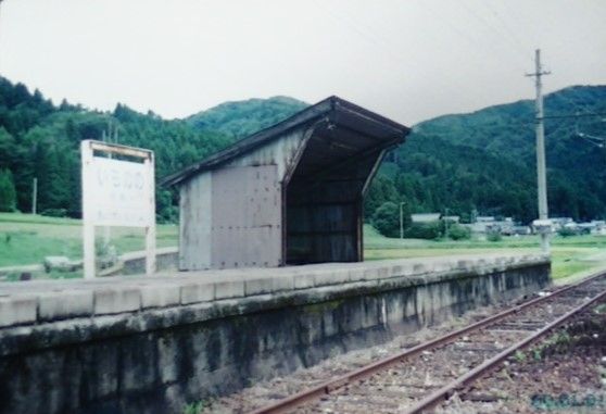 Keifuku Ichinono Station 2001 August